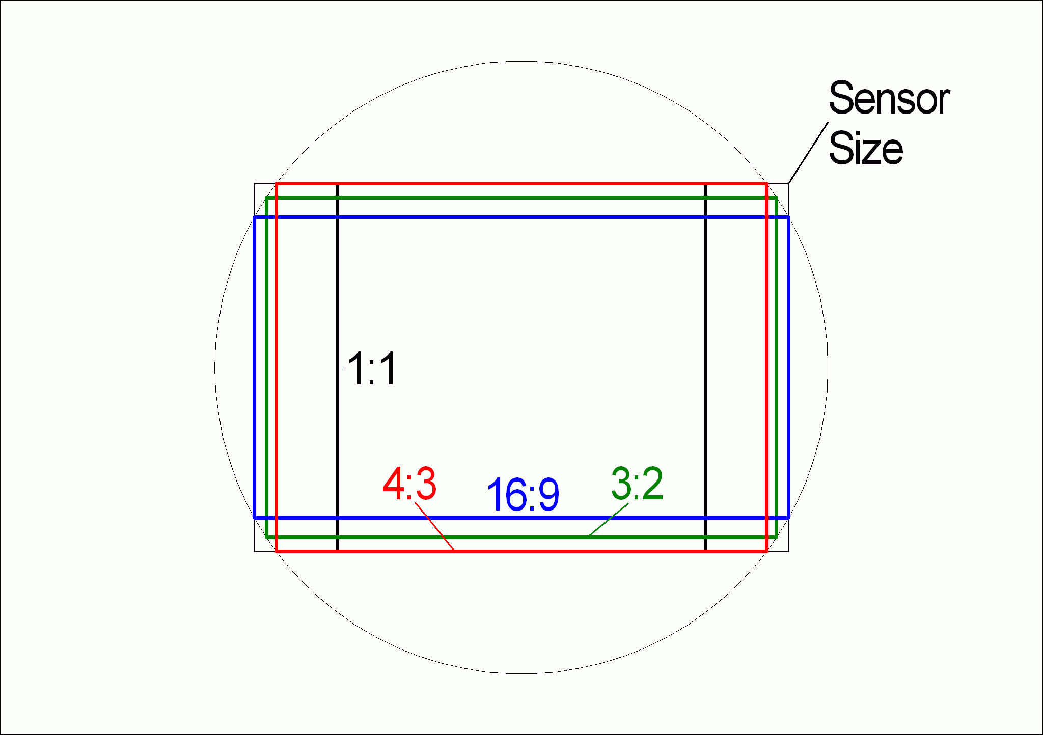 Different aspect ratios on an image sensor with optimised clipping of the image circle.